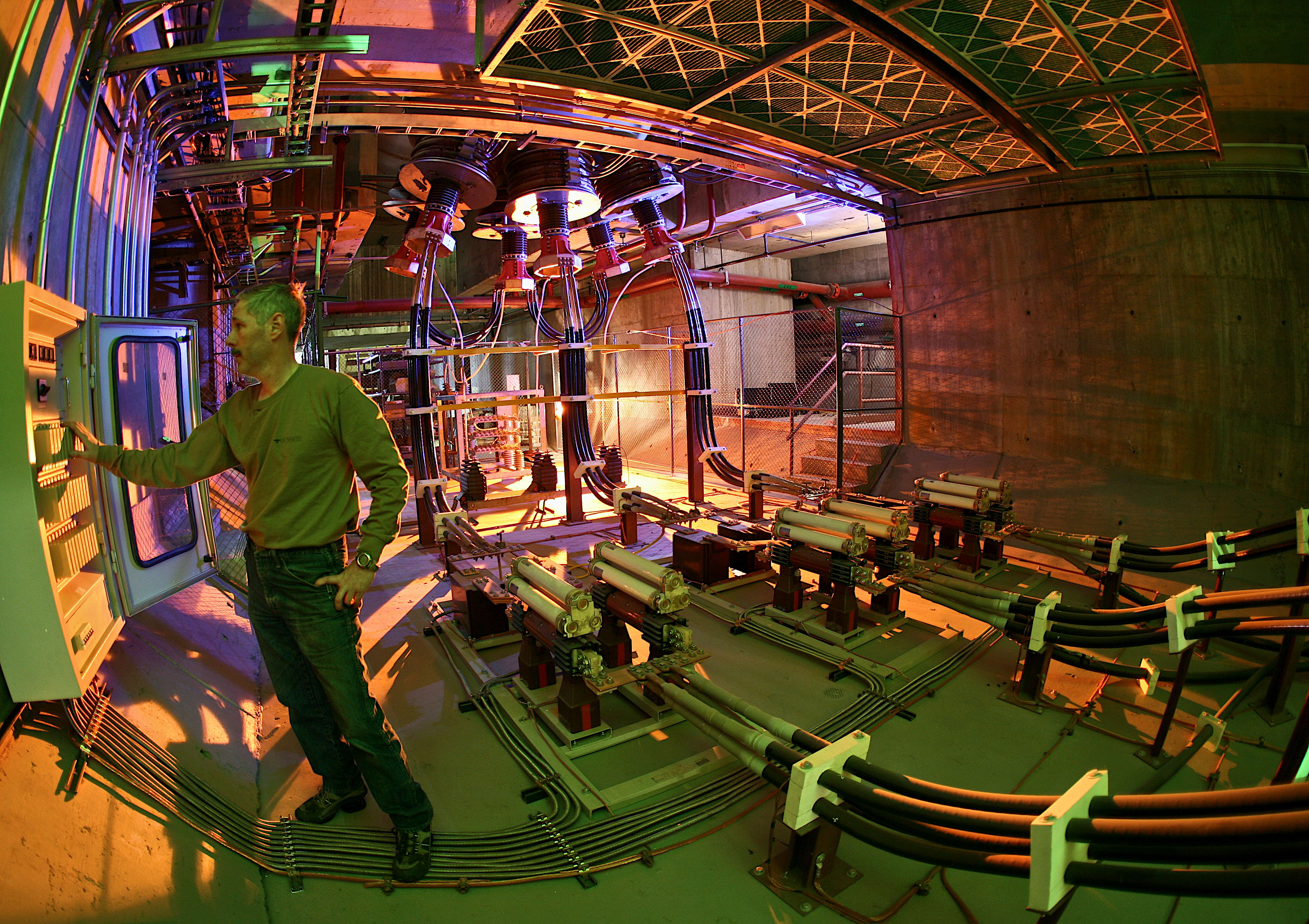 AT NATIONAL HIGH MAGNETIC FIELD LABORATORY, MIKE GORDON MAKES ADJUSTMENTS TO THE 600-MEGAJOULE AC GENERATOR, WHICH POWER MANY OF THE FACILITY'S MAGNETS. Powerful magnets-some the most powerful in the world-are available to researchers visiting the National High Magnetic Field Laboratory's Pulsed Field Facility. Located high on a mesa at Los Alamos National Laboratory, the NHMFL-PFF is the only pulsed high field user facility in the country as well as the center of exceptional condensed matter physics research. For more information or additional images, please contact 202-586-5251.